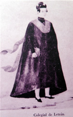 letran's alumnus saint